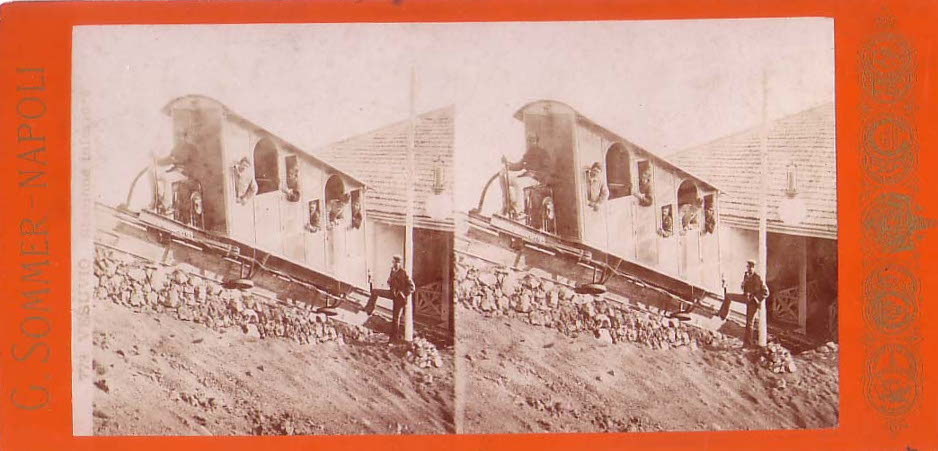 Giorgio Sommer (1834-1914), "Vesuvius. Lower station". Stereo card. Catalogue # 0788.